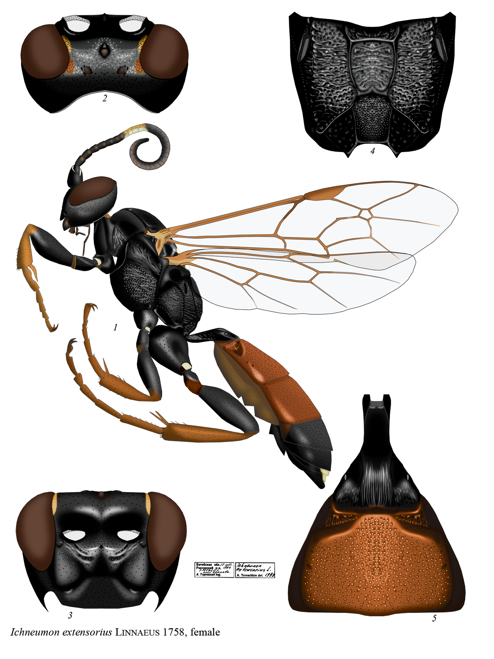 Ichneumon extensorius